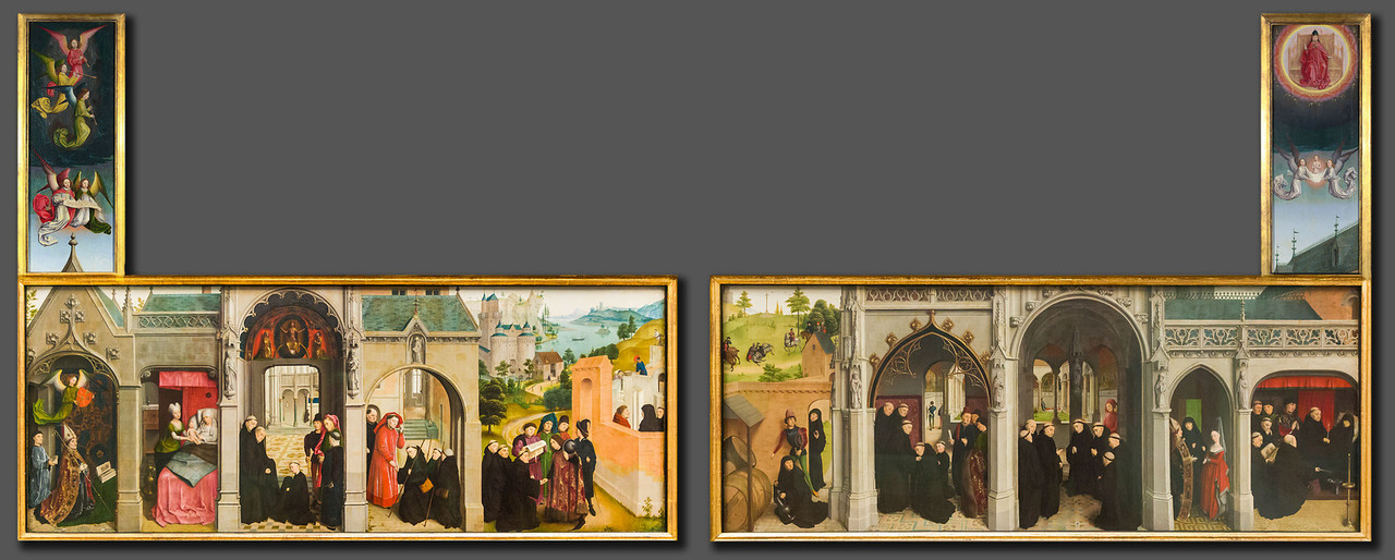 Simon Marmion, Saint Bertin Altarpiece, ca 1459, Reconstruction of side A